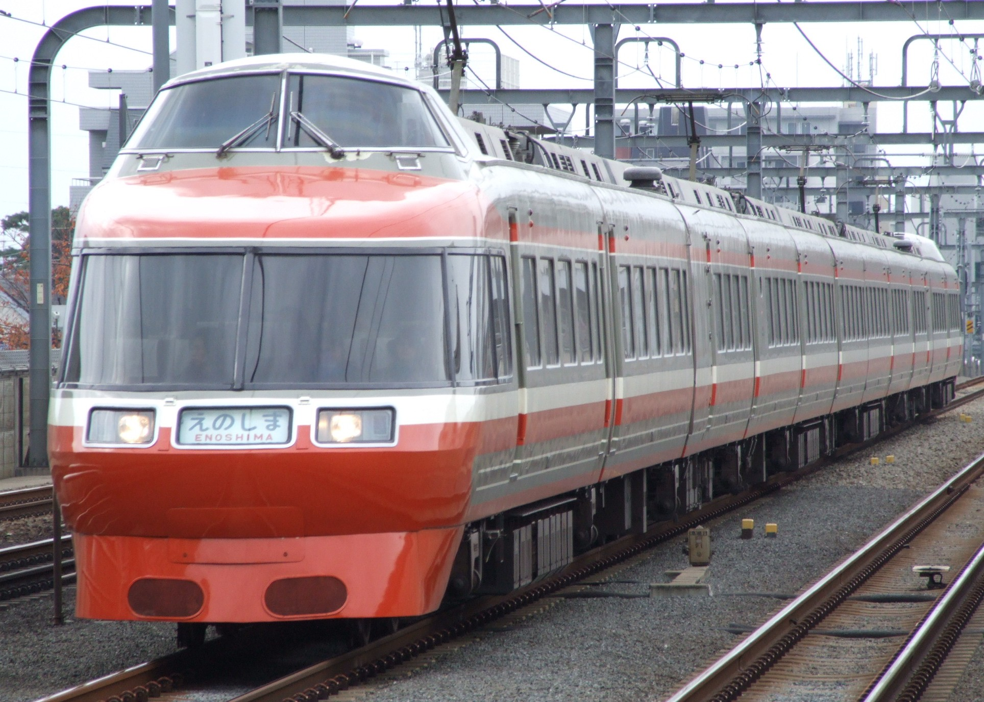 Odakyu 7000 series LSE "Romancecar" EMU repainted into its original livery, on an Enoshima service